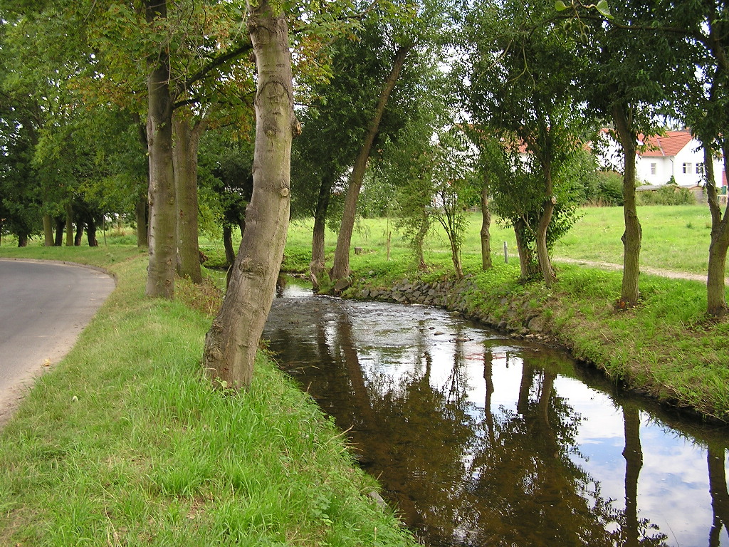 The “Eschbach” in Frankfurt, Germany